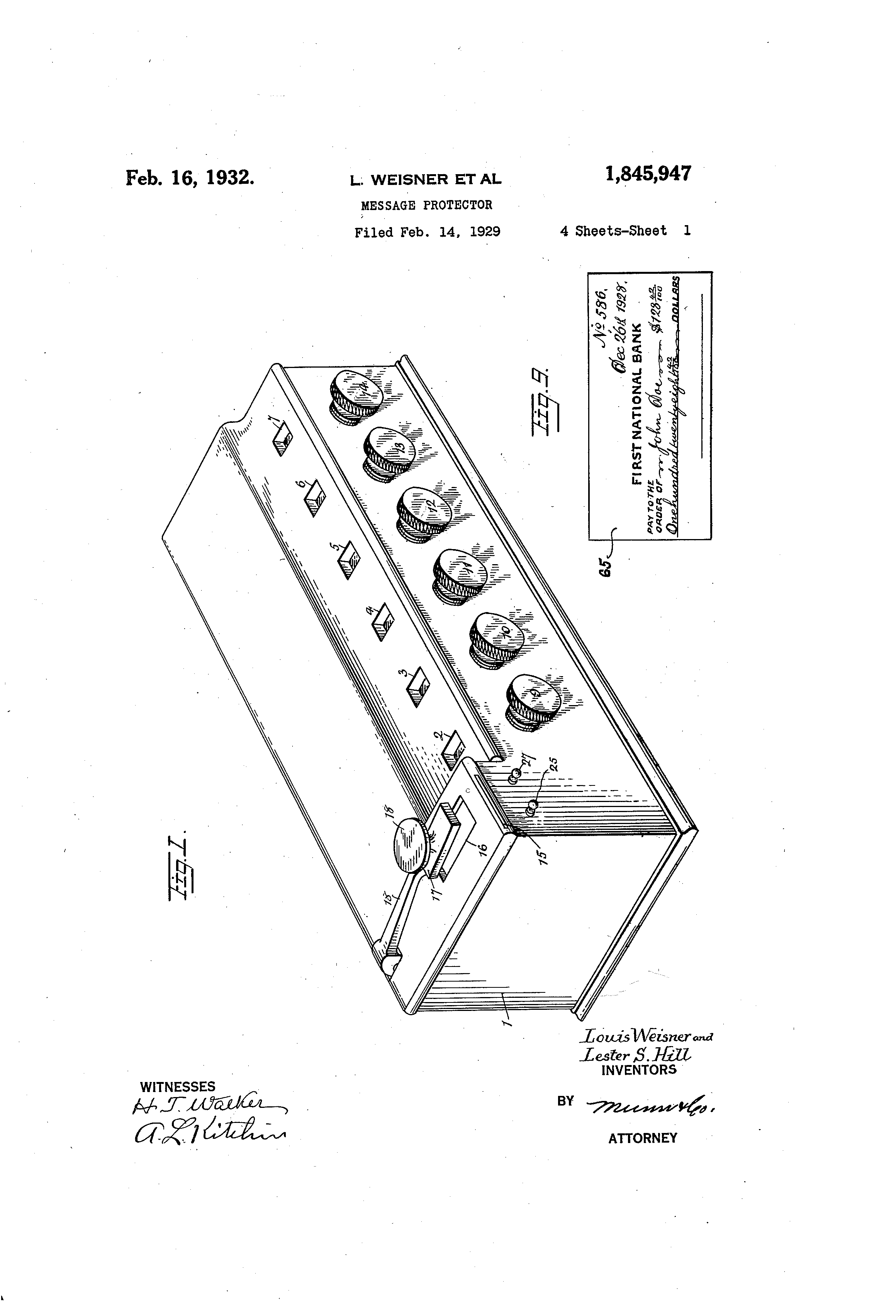 Message Protector (Lester-Weisner)